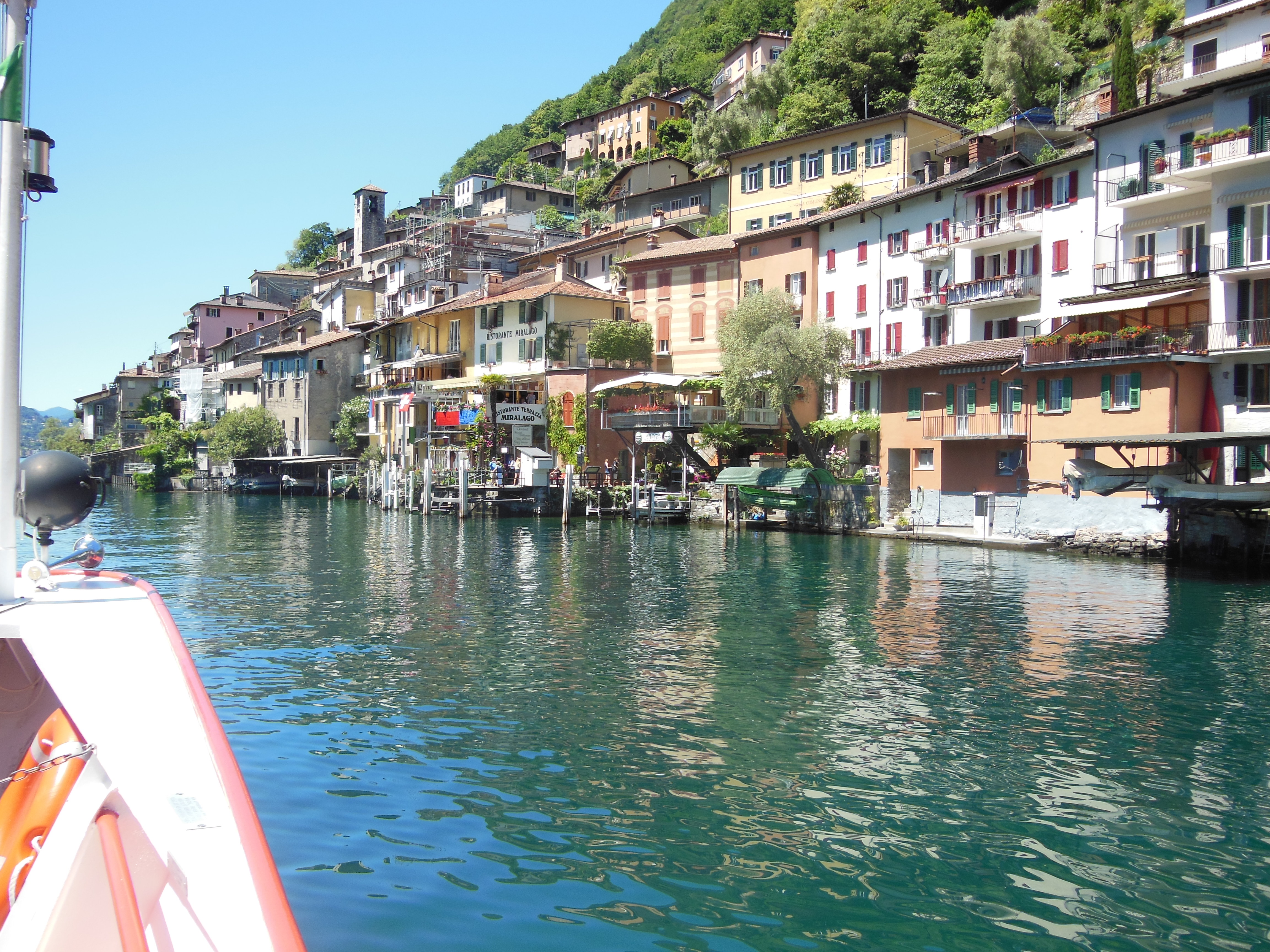 The quayside at the village of Gandria, on Lake Lugano in Switzerland, as seen from an approaching vessel of the Società Navigazione del Lago di Lugano. For more information, see the Wikipedia articles Gandria and Società Navigazione del Lago di Lugano.